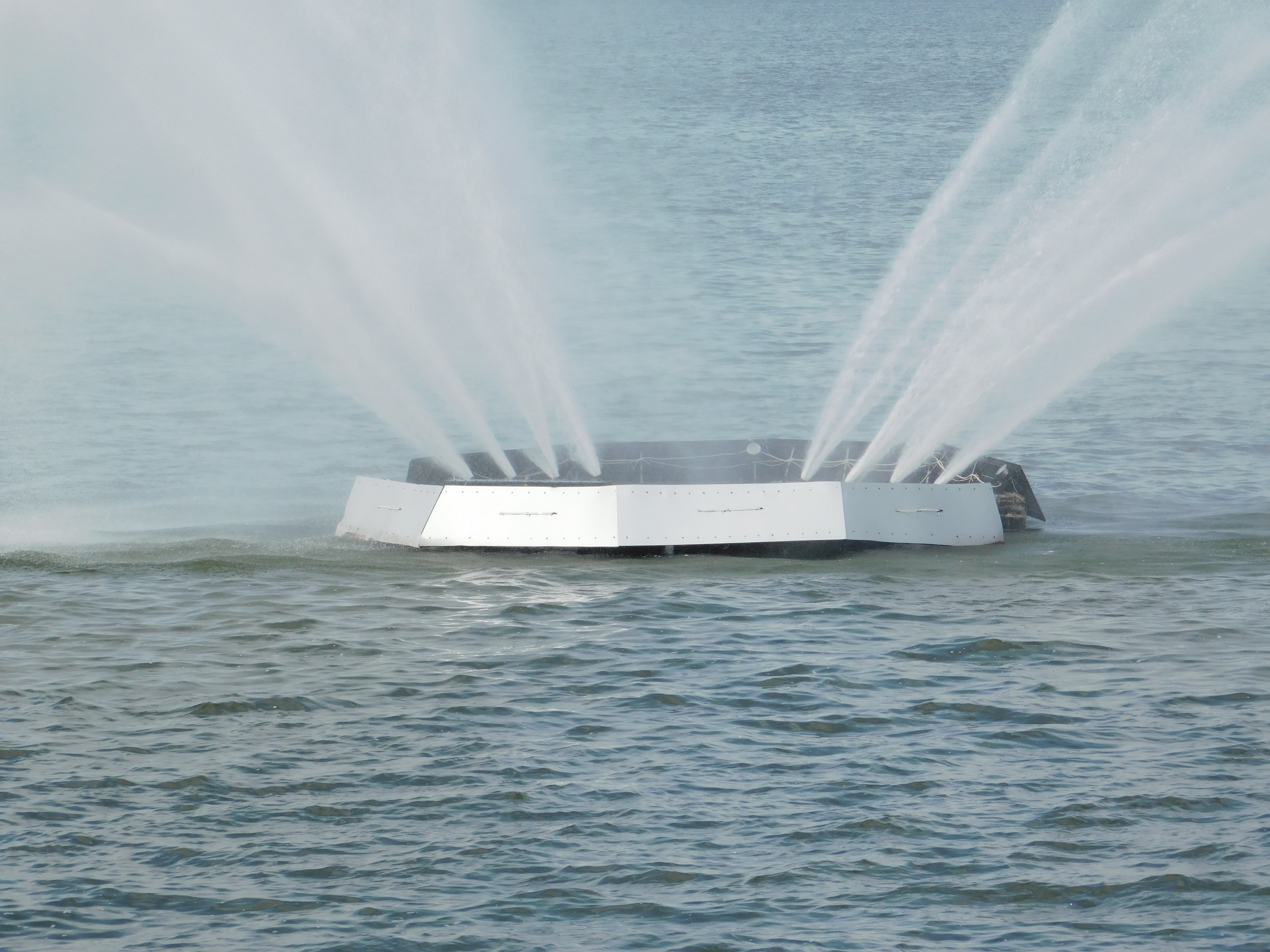 Swans fountain in Dnieper river in Dnipro, Ukraine.